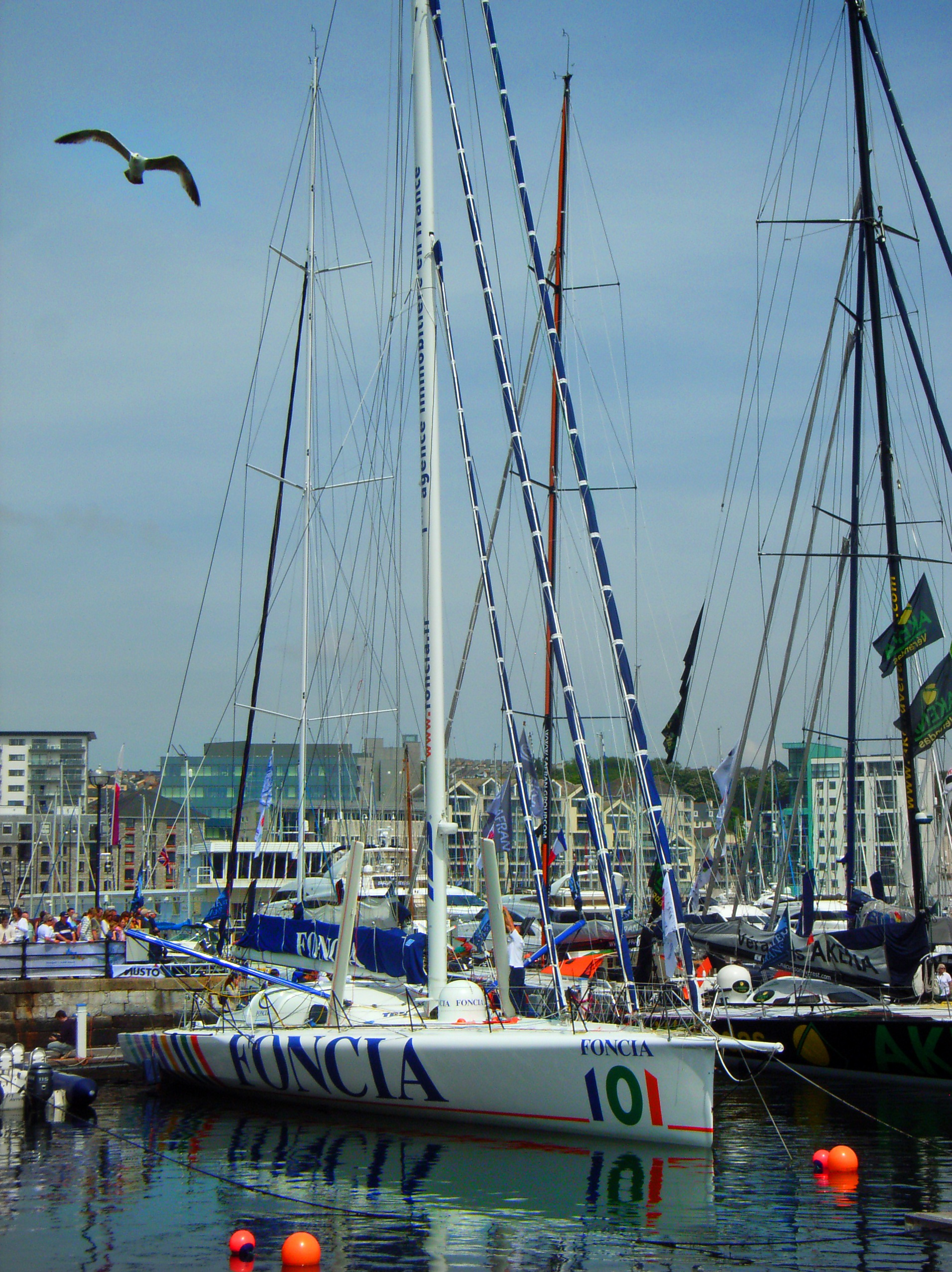 Transat Plymouth